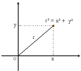 relation between x y and r